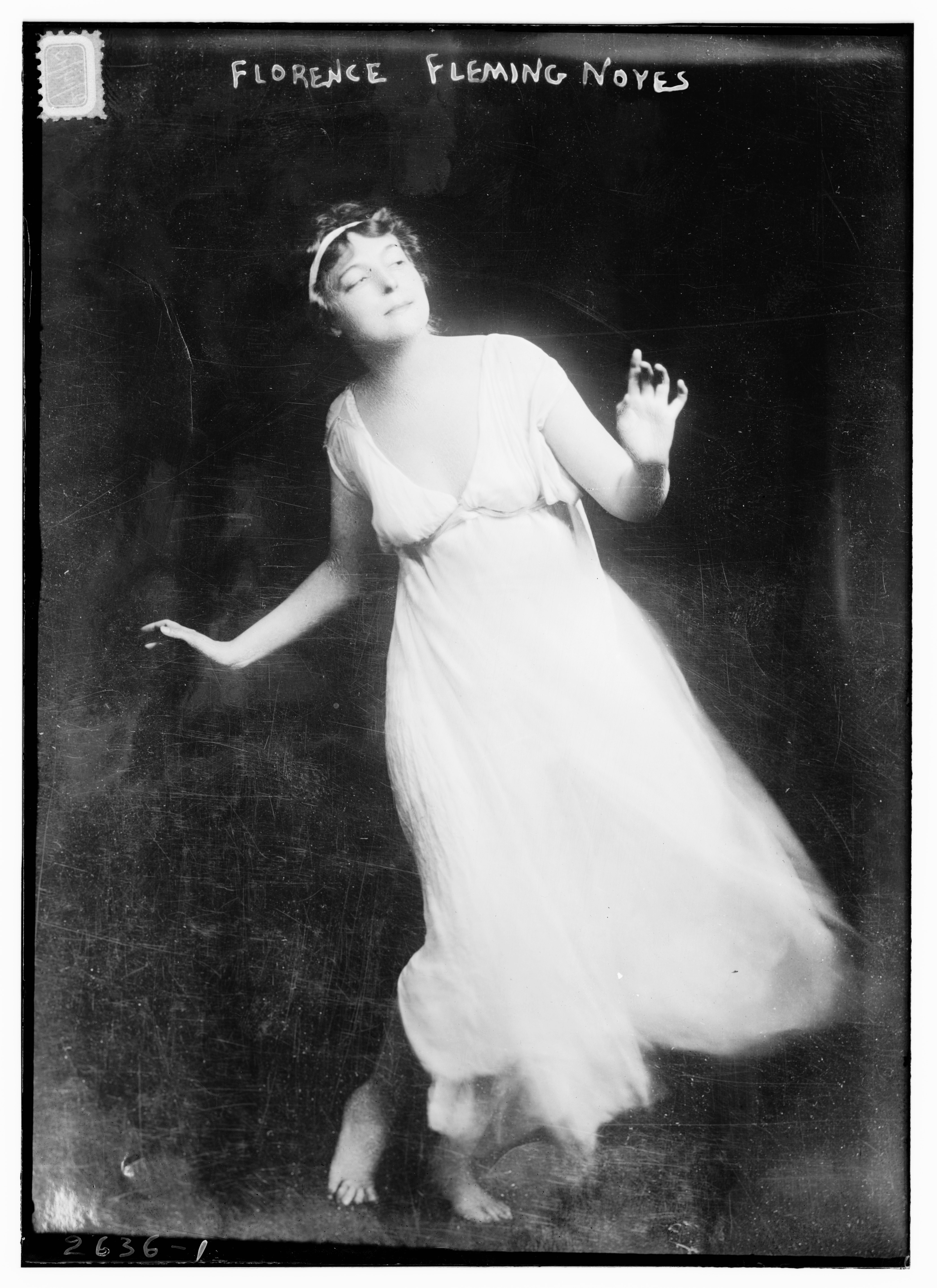 Title: Florence Fleming Noyes Abstract/medium: 1 negative : glass ; 5 x 7 in. or smaller.